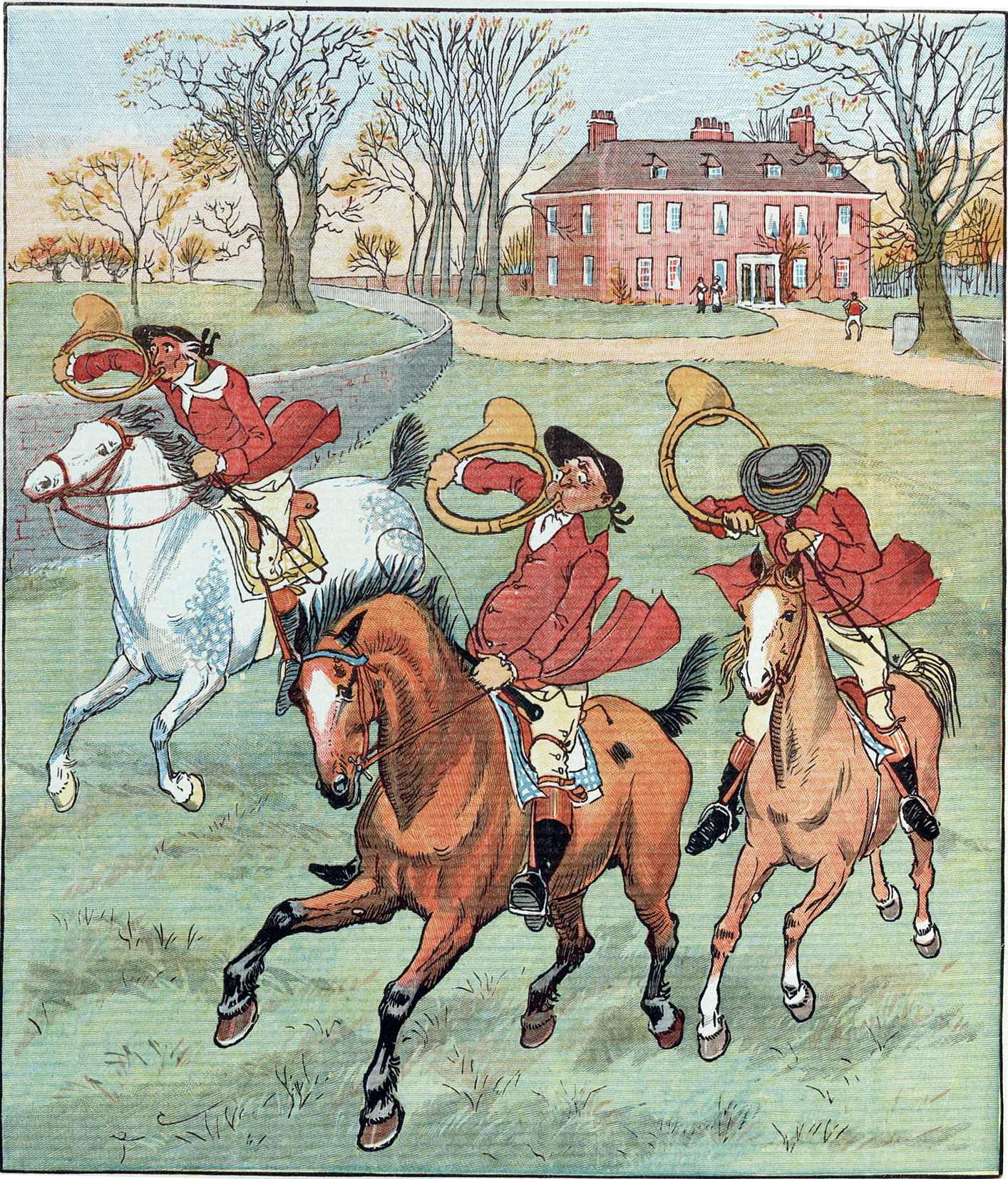 Page 0158 from The complete collection of pictures & songs by Randolph Caldecott The Three jovial huntsmen from The Three Jovial Huntsmen by Randolph Caldecott.